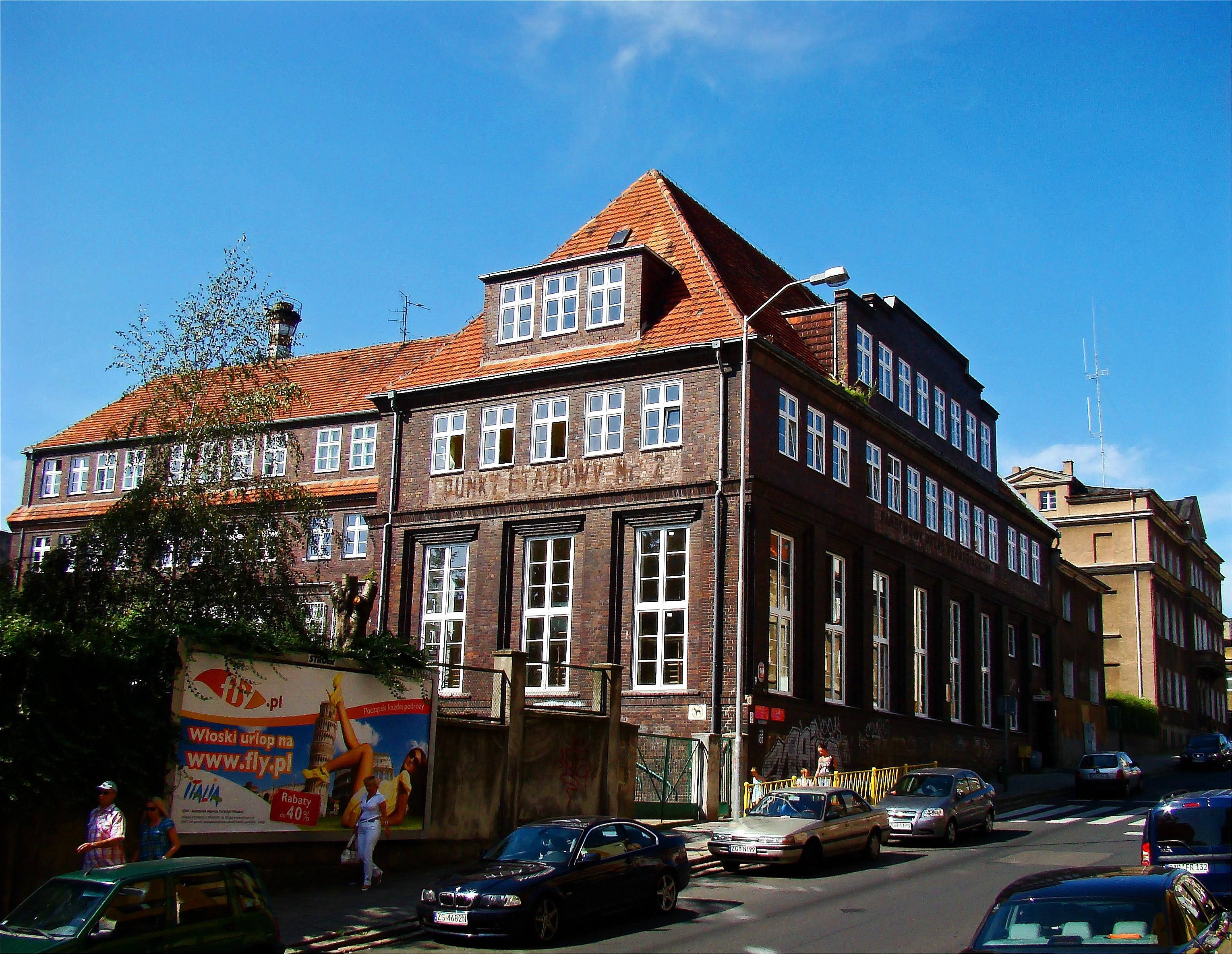 Szczecin Turzyn, old. State Office of Repatriation No 2 (Jagiellonska 65, monument), Poland